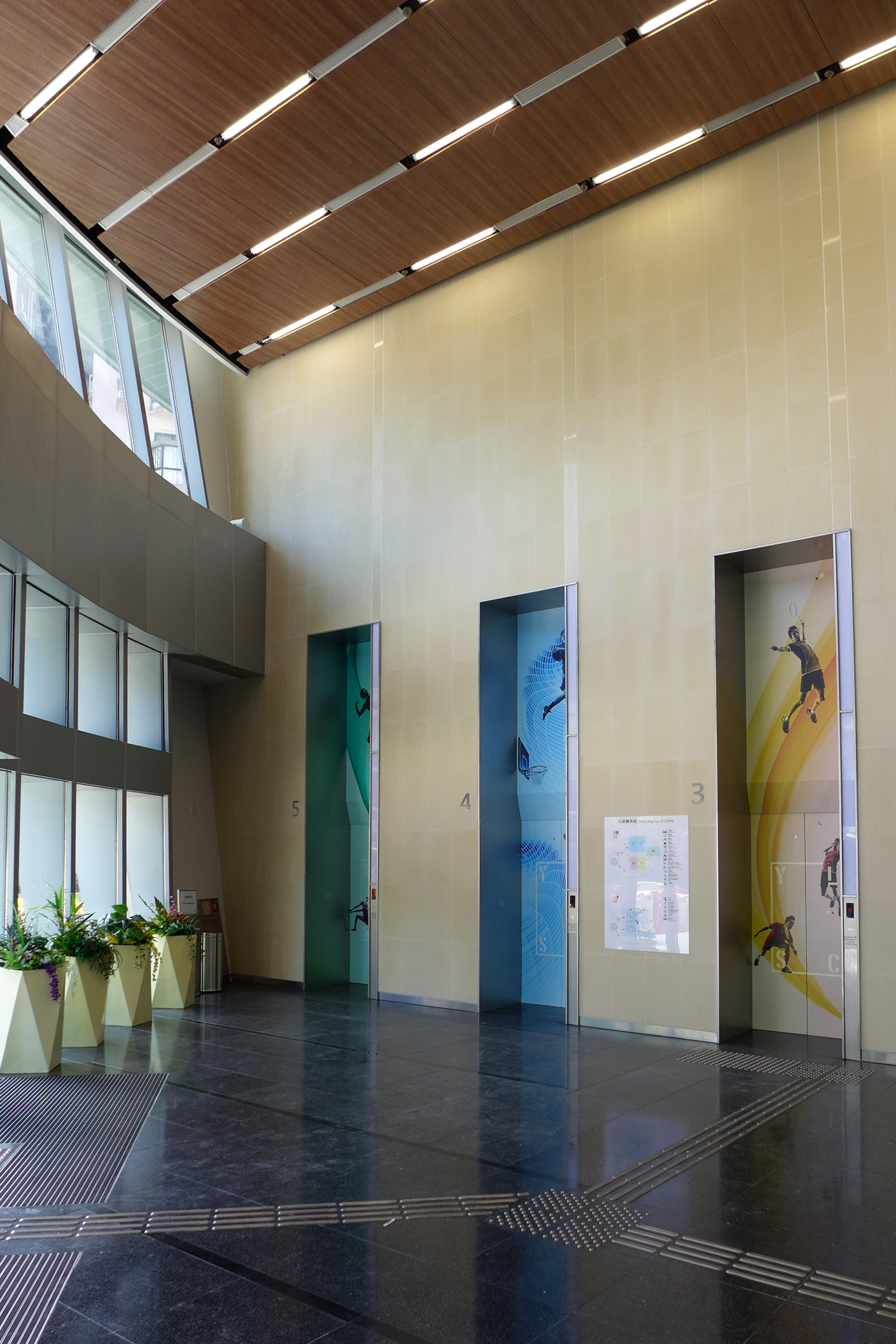 Yuen Long Leisure and Cultural Building